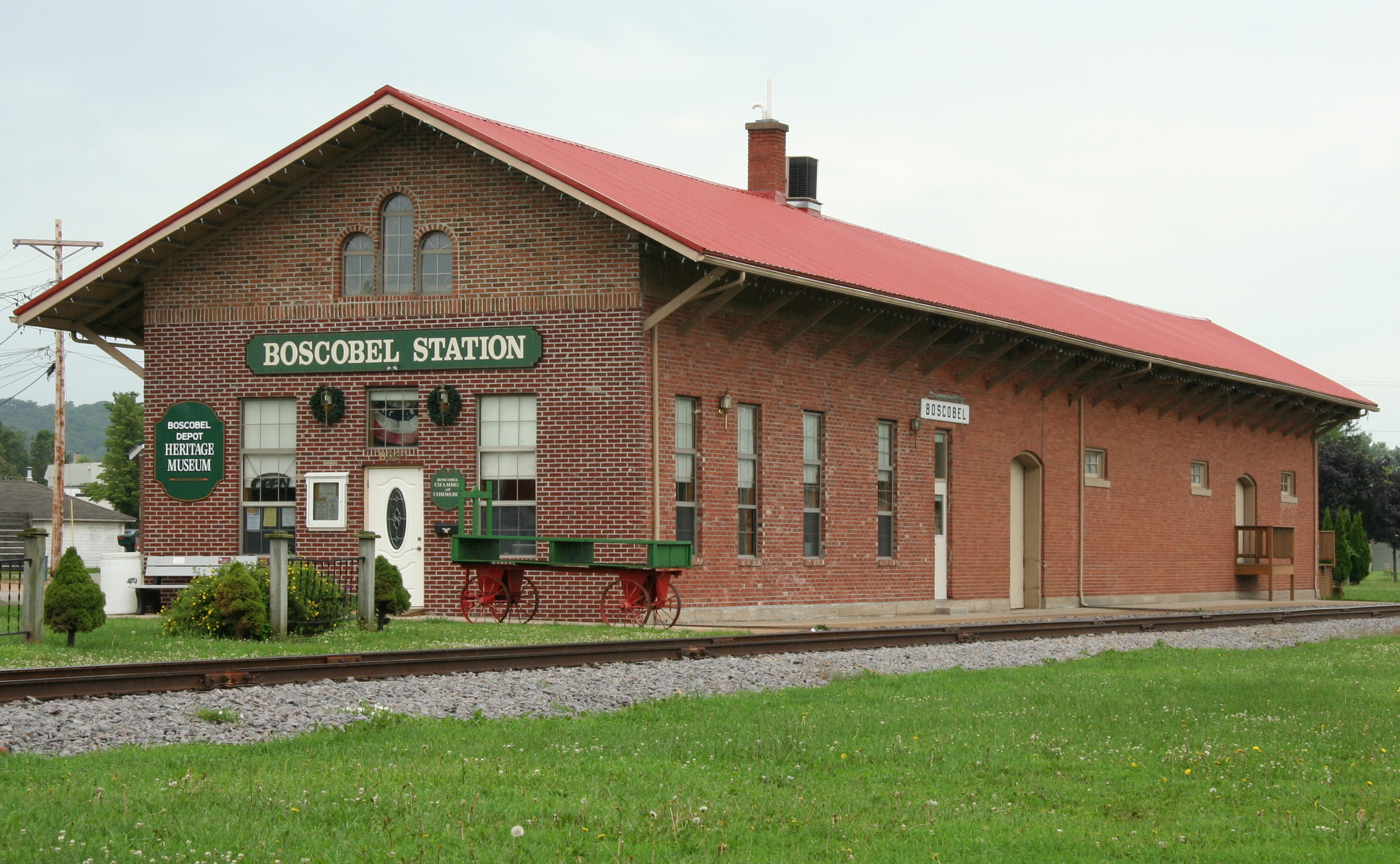 Historic Wisconsin Western Railroad Boscobel Station, now a museum, in Boscobel, Grant County, Wisconsin